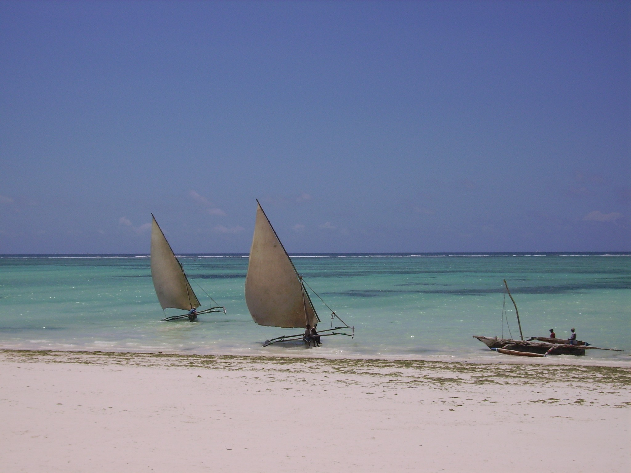 One of the beautiful beaches in Zanzibar.